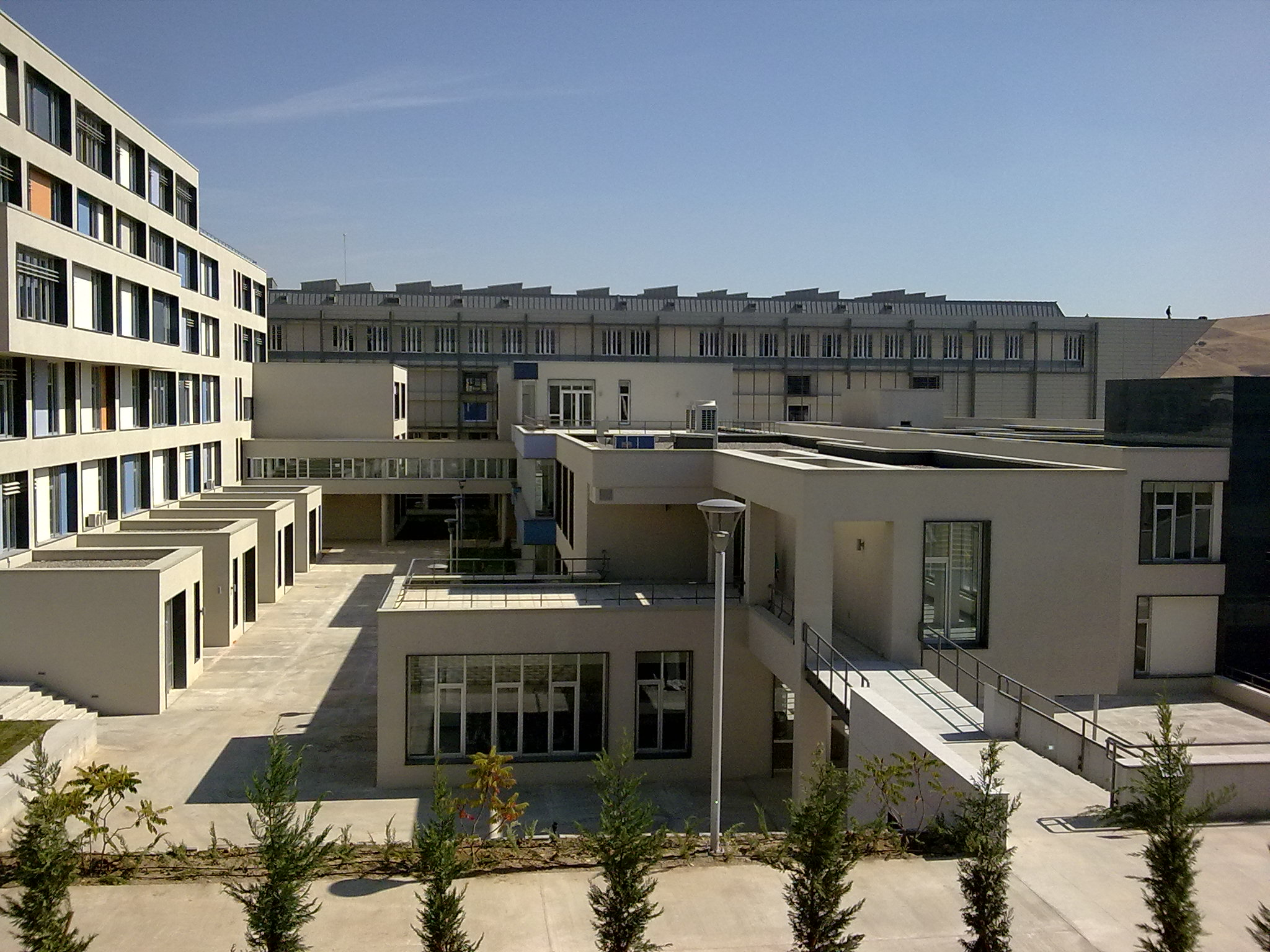 A view of the Çankaya University Turkuaz campusTürkçe: Çankaya Üniversitesi'nin Turkuaz kampüsünden bir görünüm